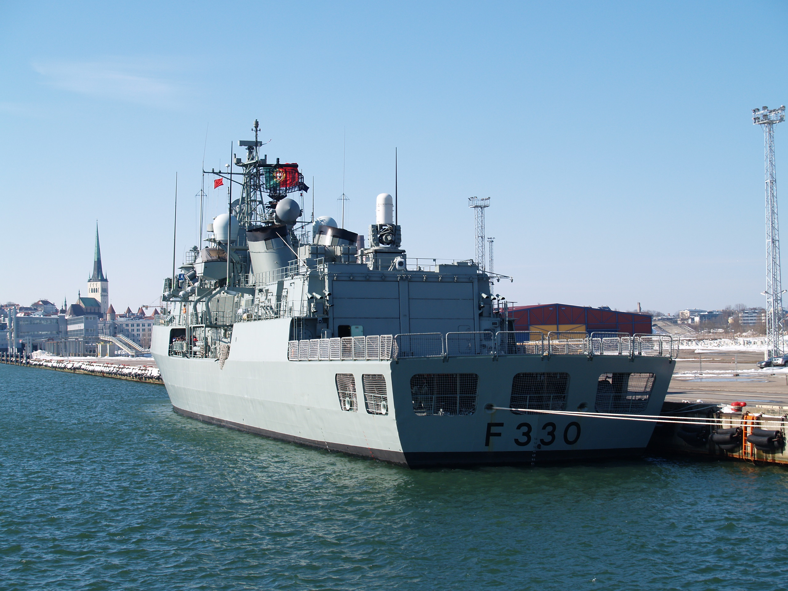 NRP Vasco da Gama (F330) on it's visit to Tallinn between 27.-31. March 2008.